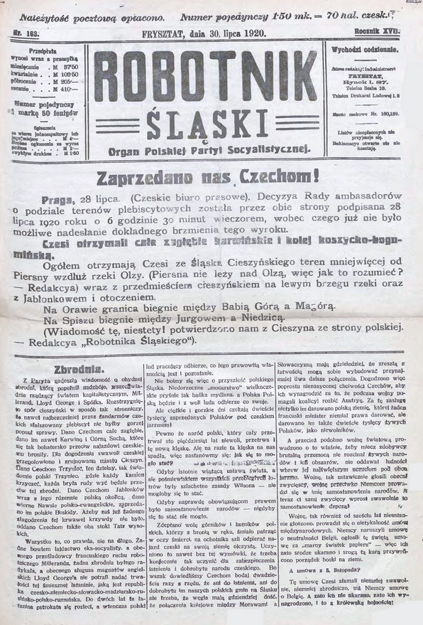 "Robotnik Śląski"